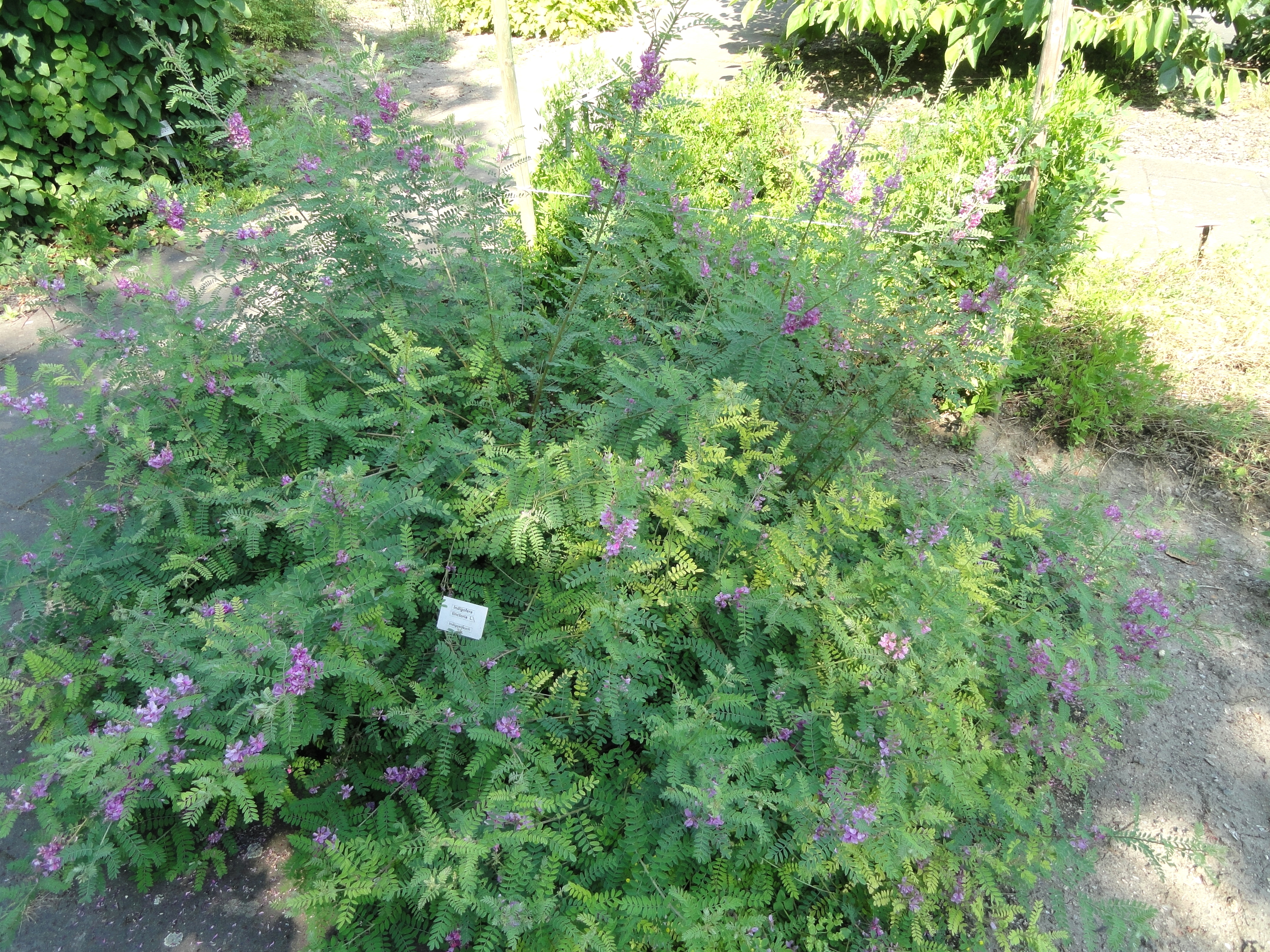 Botanical specimen in the Botanischer Garten, Frankfurt am Main, Germany.